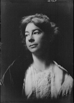 Filsinger, Sara Teasdale, Mrs., portrait photograph.